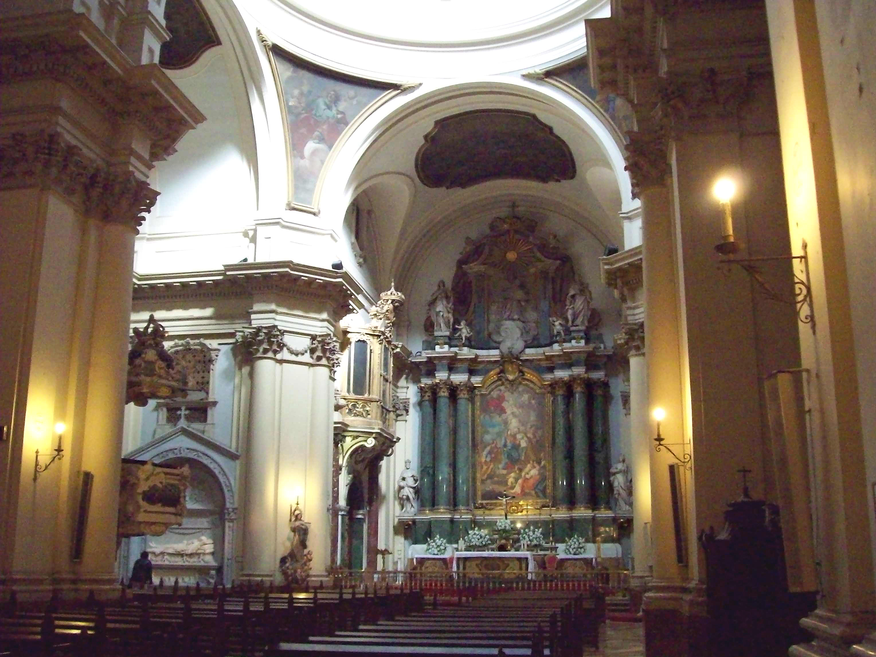 Interior of Iglesia Parroquial de Santa Bárbara ("Parish Church of St. Barbara") in Madrid (Spain).